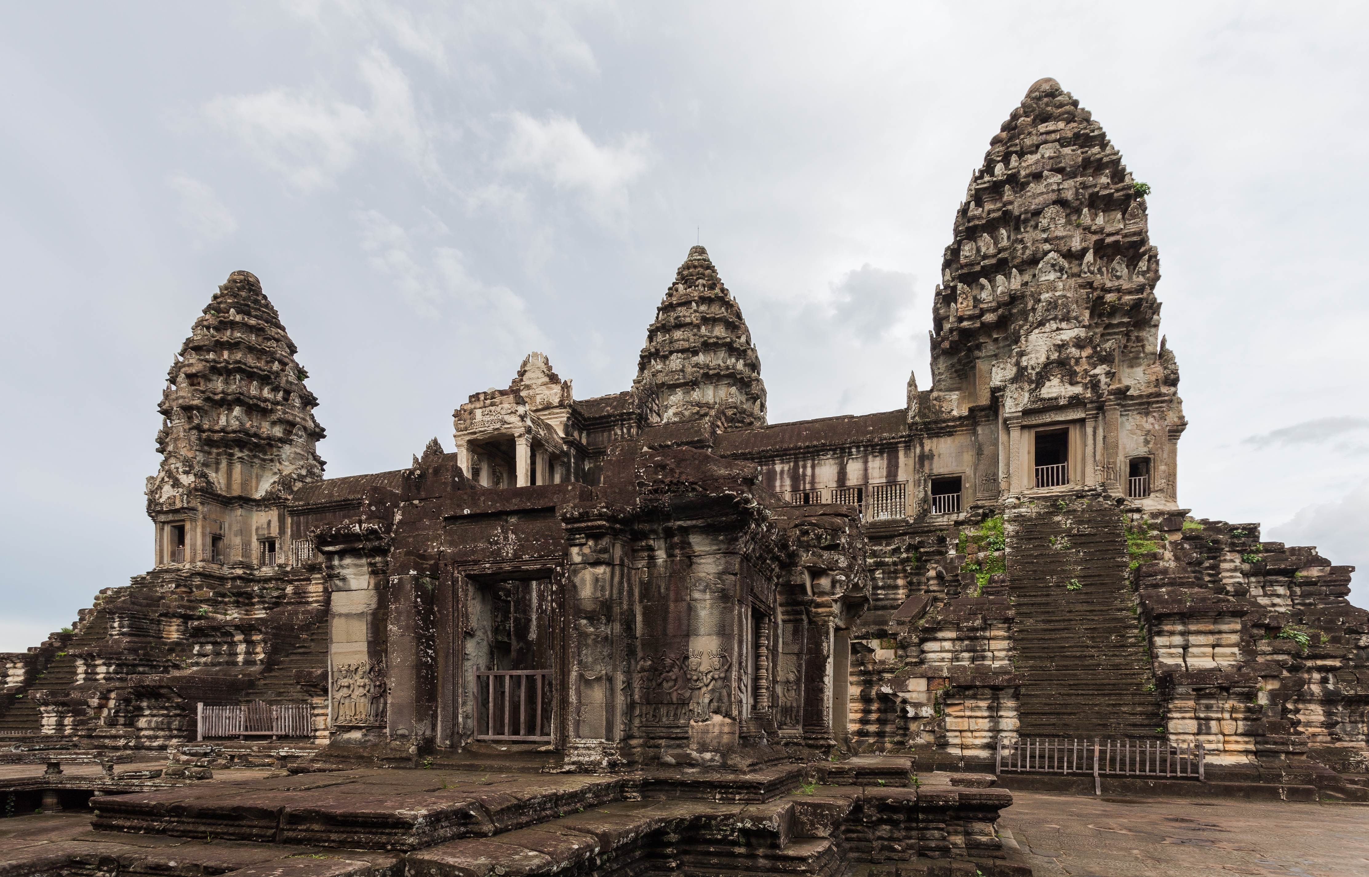 Angkor Wat, Cambodia